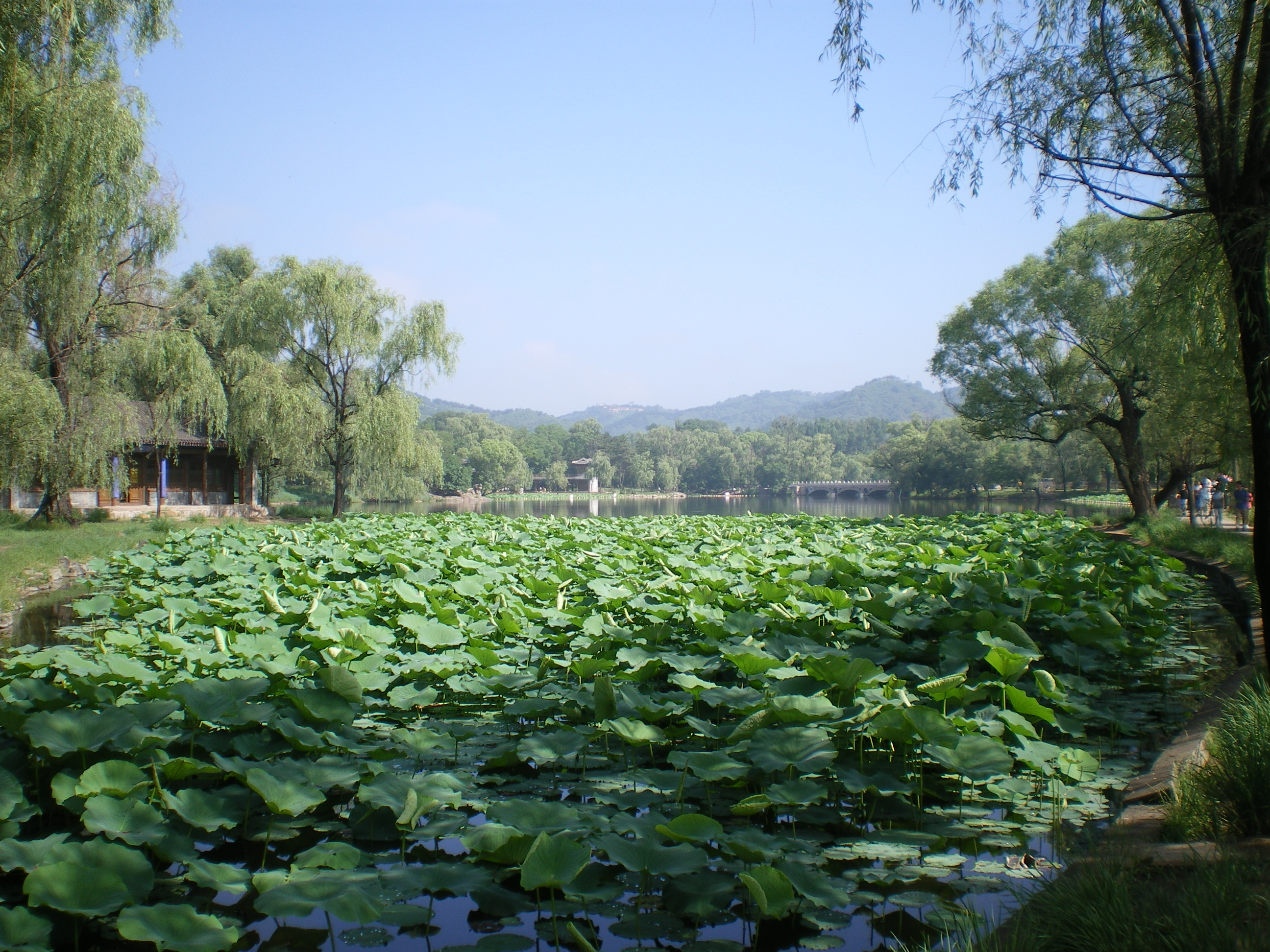 The Mountain Resort in Chengde.